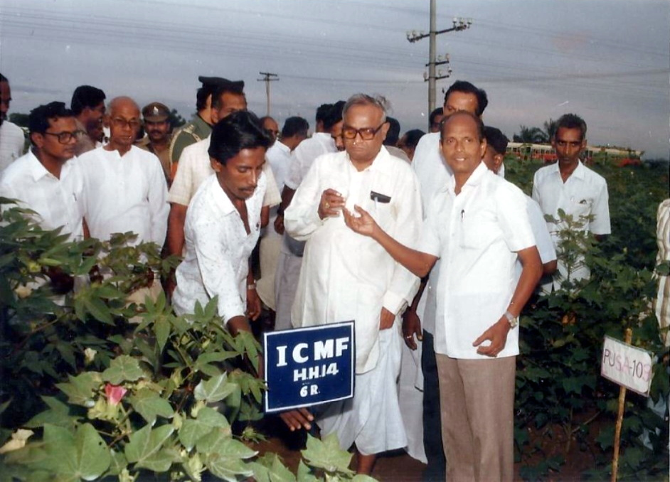 Kaderbad Ravindranath-with-Pendekanti Venkata Subbiah-Governor-ICMF